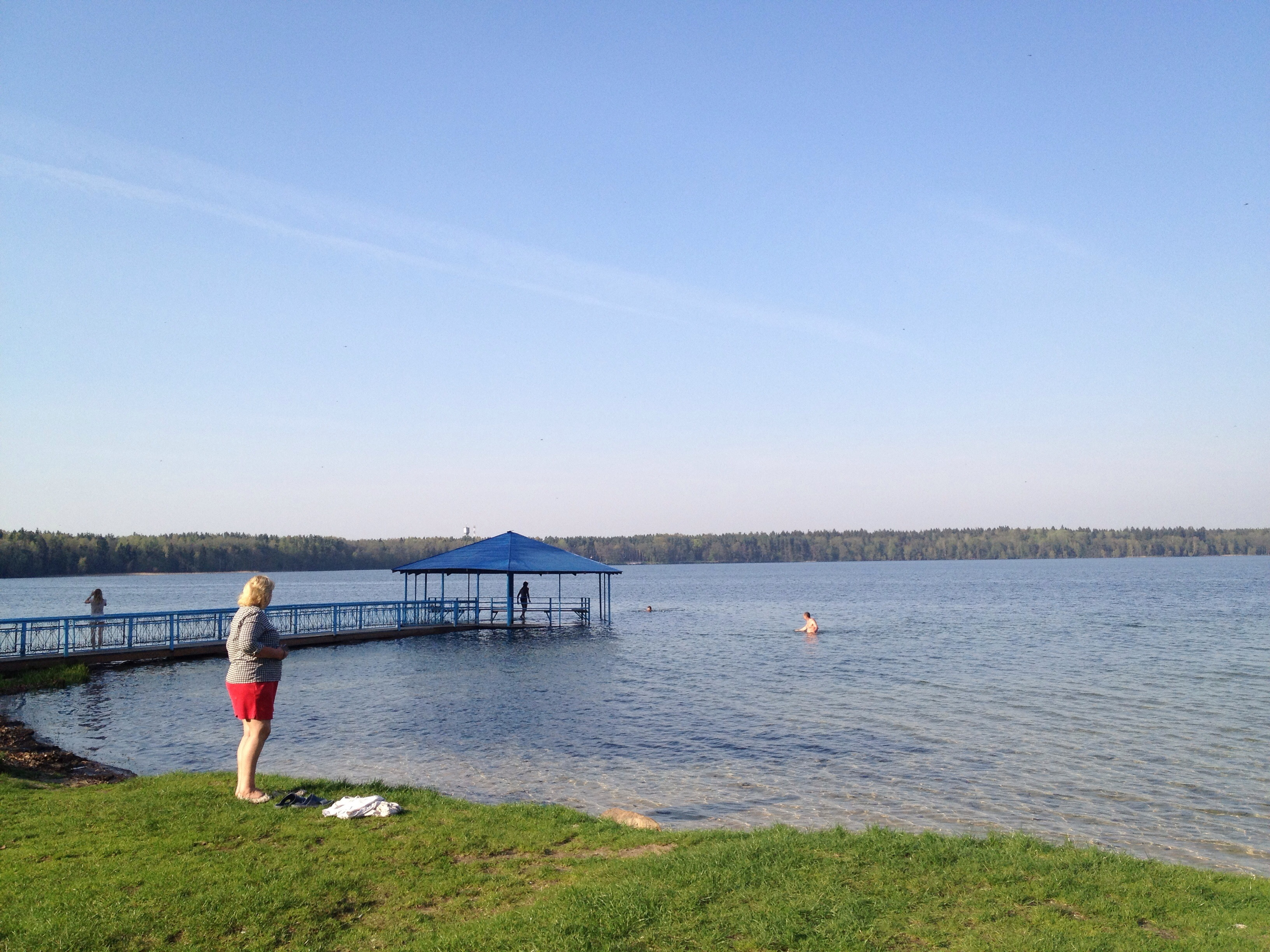 The Svityaz Lake (named after A. Mickiewicz Svityaz) in Hrodna province near Navahrudak.